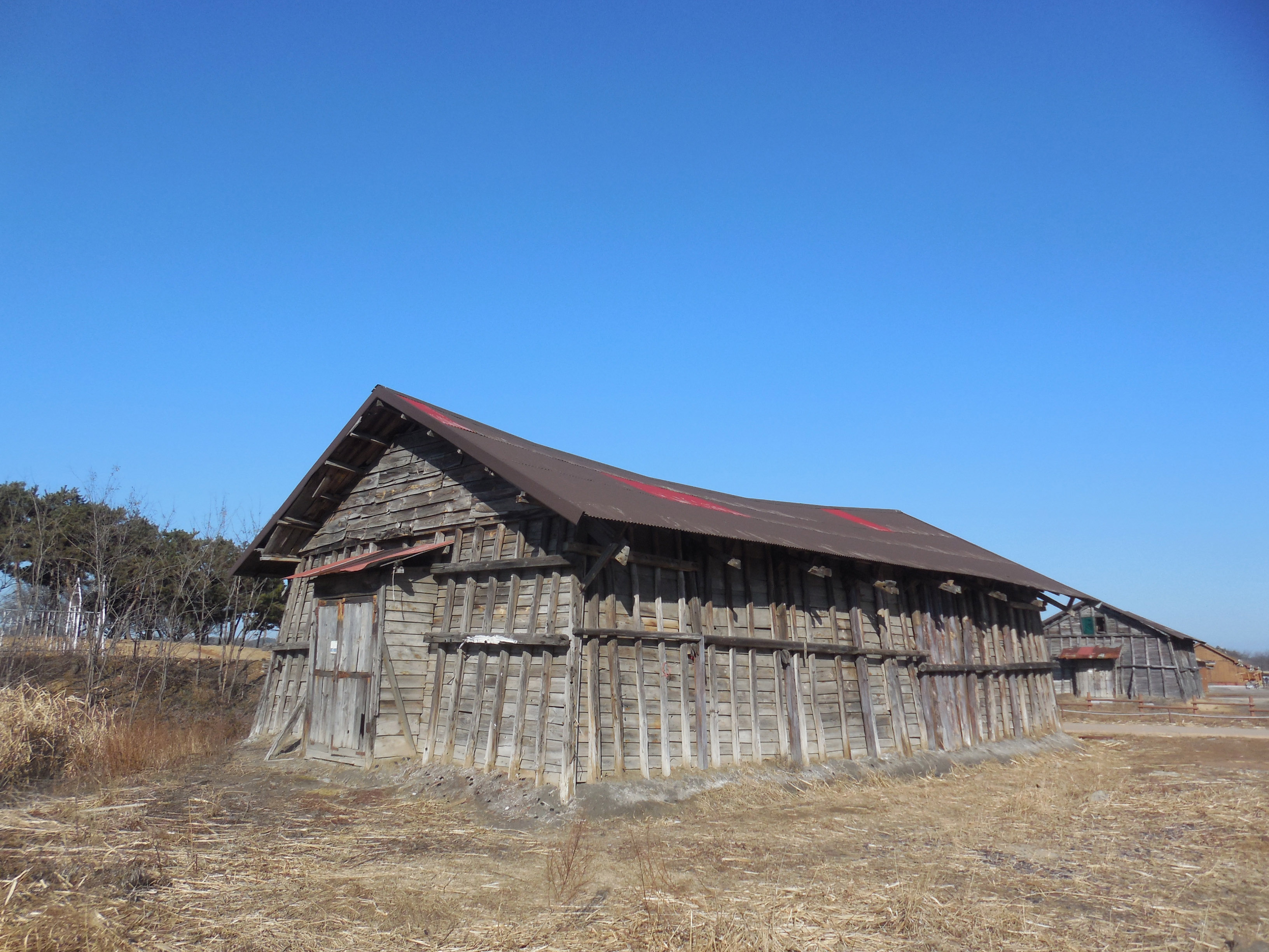 One of warehouses of Sorae Salt Field.